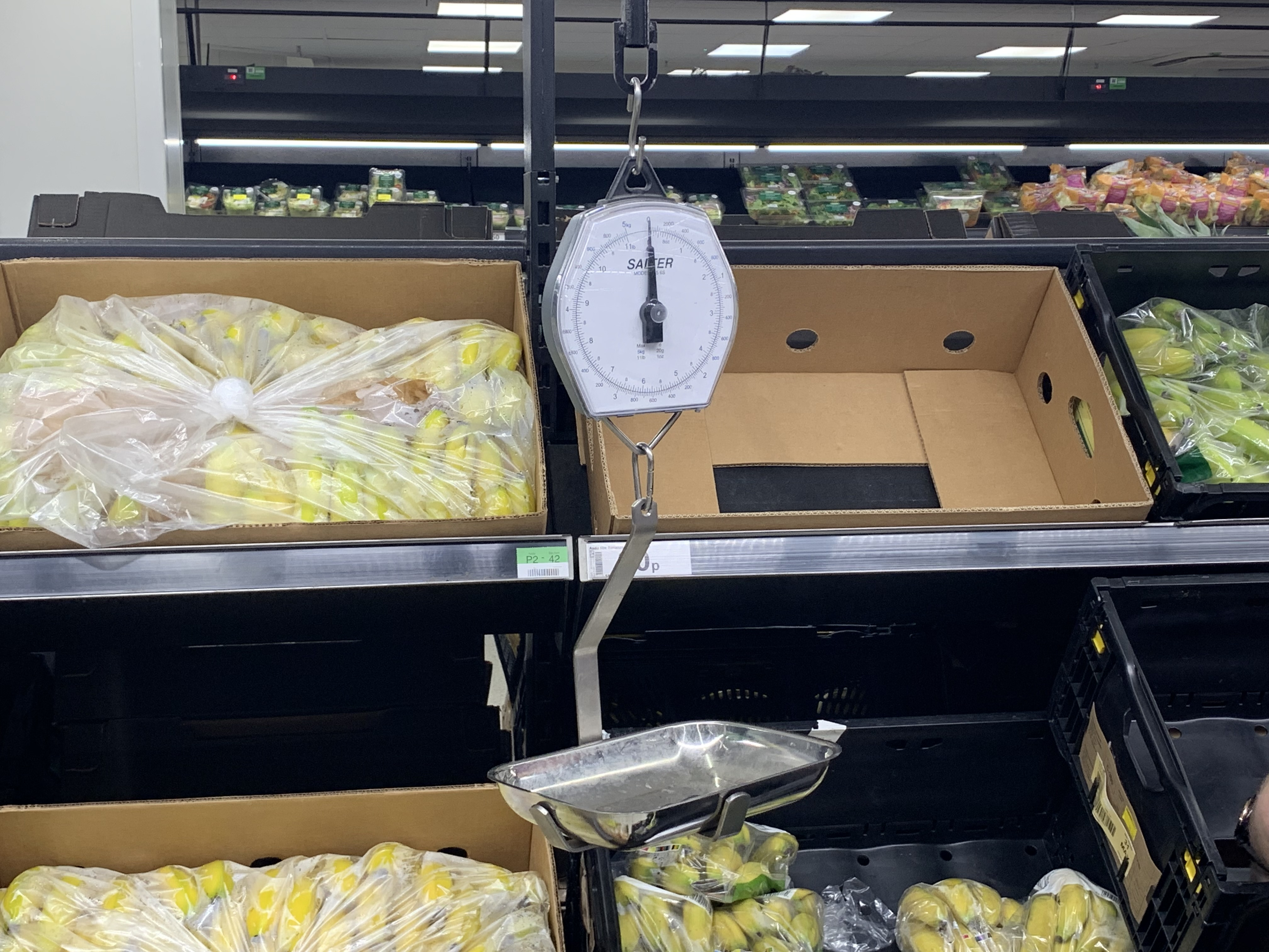 A scale for measuring fruit at a supermarket